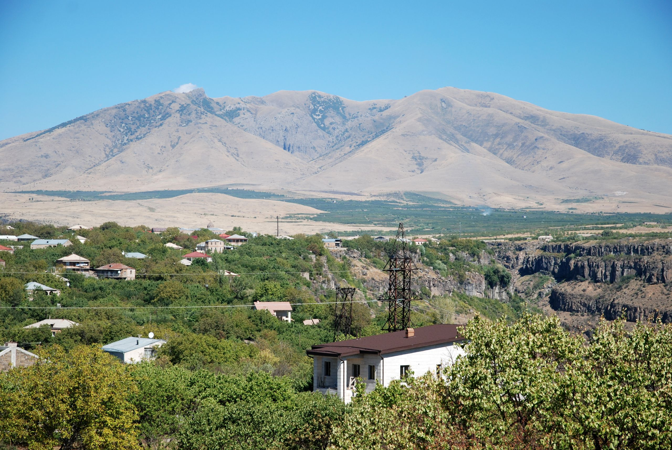 Mughni, near Ashtarak, Ara mountain